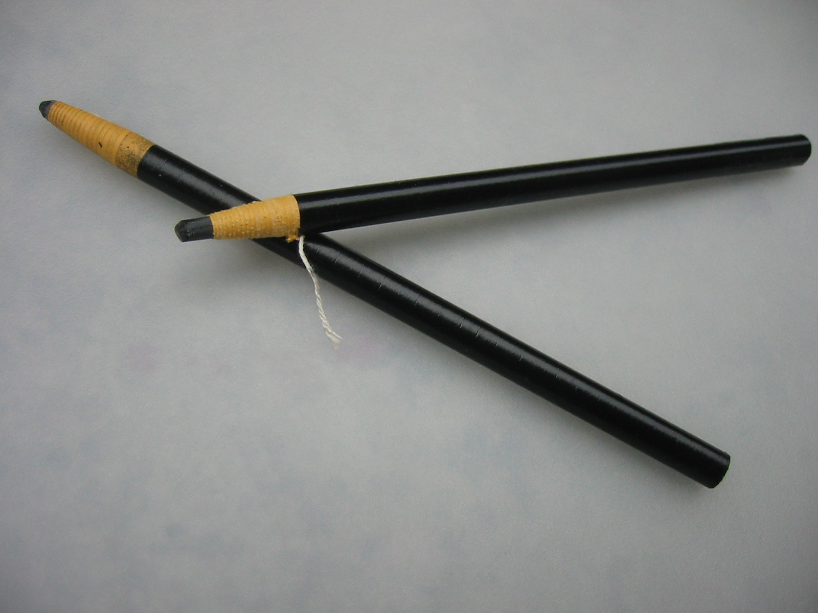 A grease pencil (UK chinagraph pencil) is made of hard colored wax and is useful for marking on hard, glossy surfaces such as porcelain or glass.